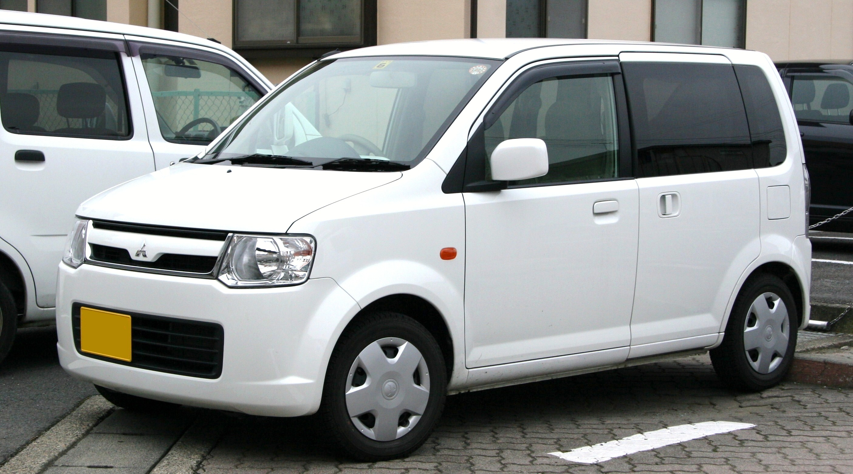 Mitsubishi eK